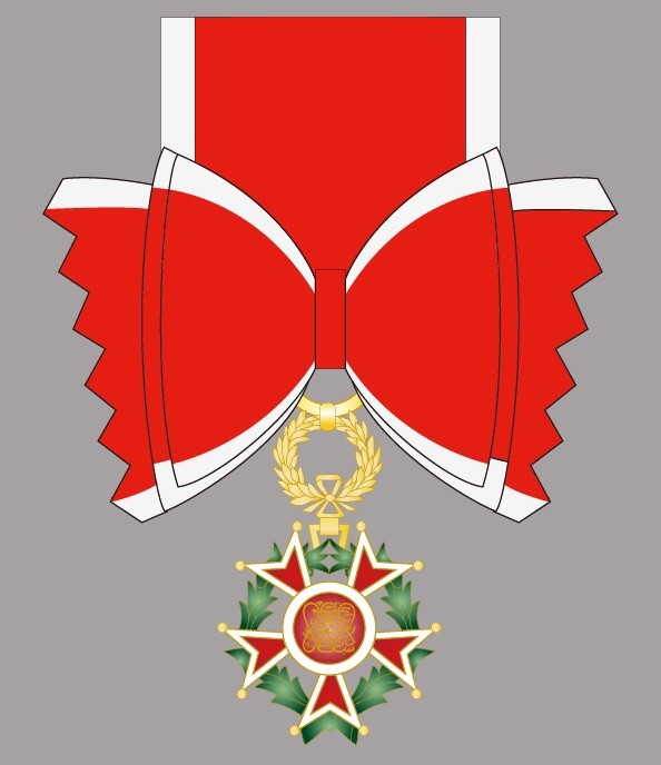 Order of the Brilliant Star of Zanzibar II grade sash and sash badge